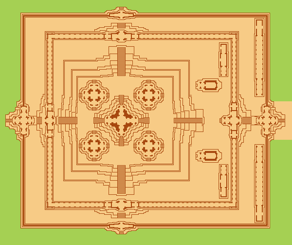 Ta Keo schematic plan. Angkor. Cambodia